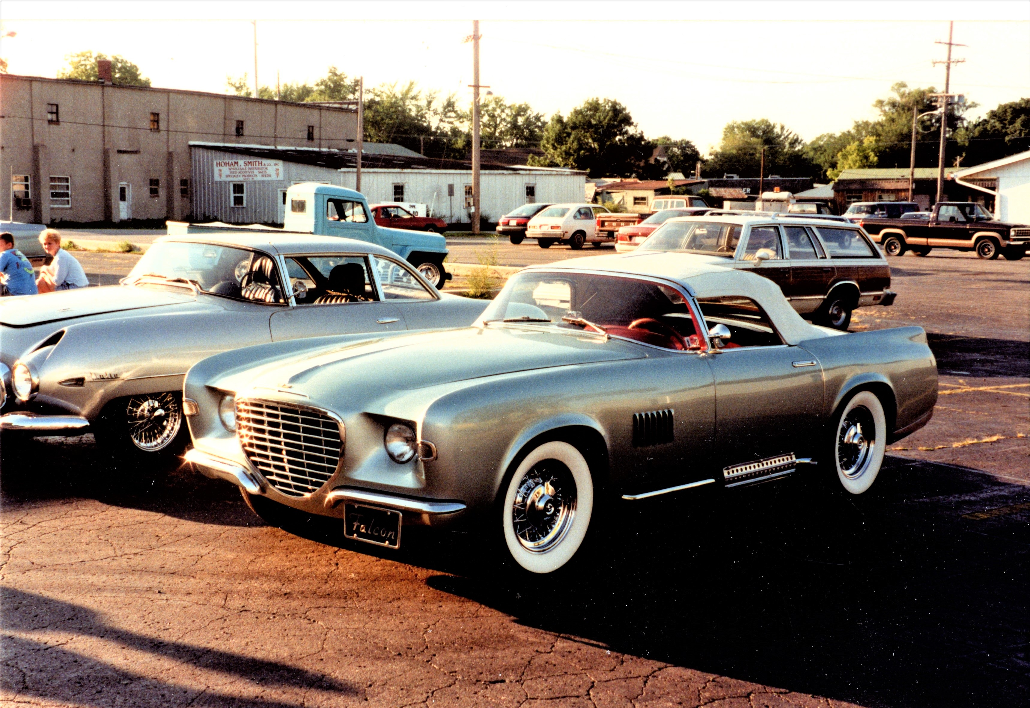 Chrysler Falcon Concept front view